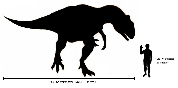 Size comparison between the carnosaurian theropod dinosaur Allosaurus and a human